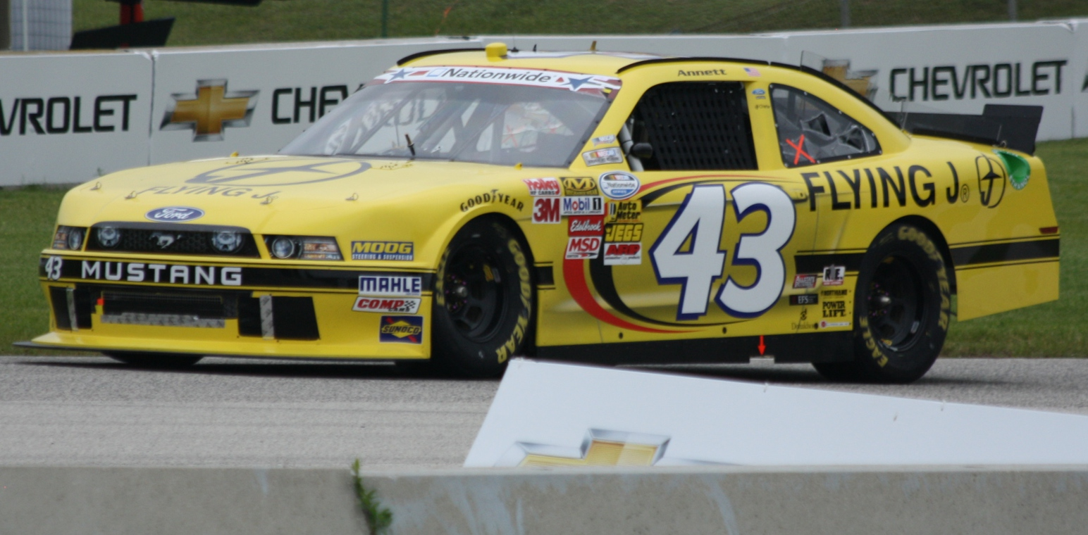 The NASCAR Nationwide car of Michael Annett during the w:2013 Johnsonville Sausage 200 at Road America.